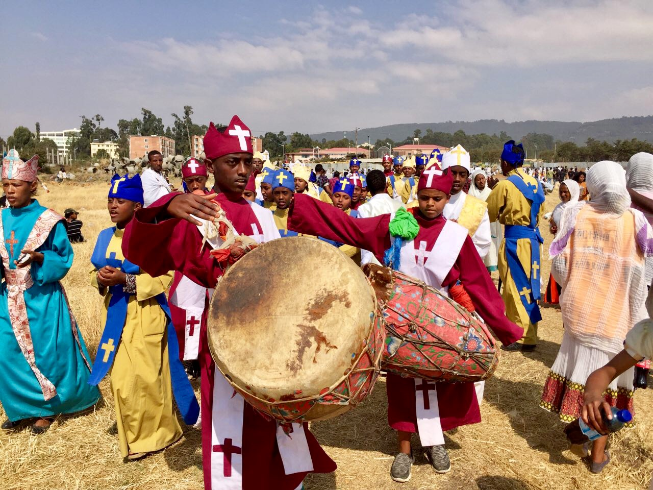 Youth praising lord Jesus on the day of Epiphany This is an image with the theme "Play" from: Ethiopia